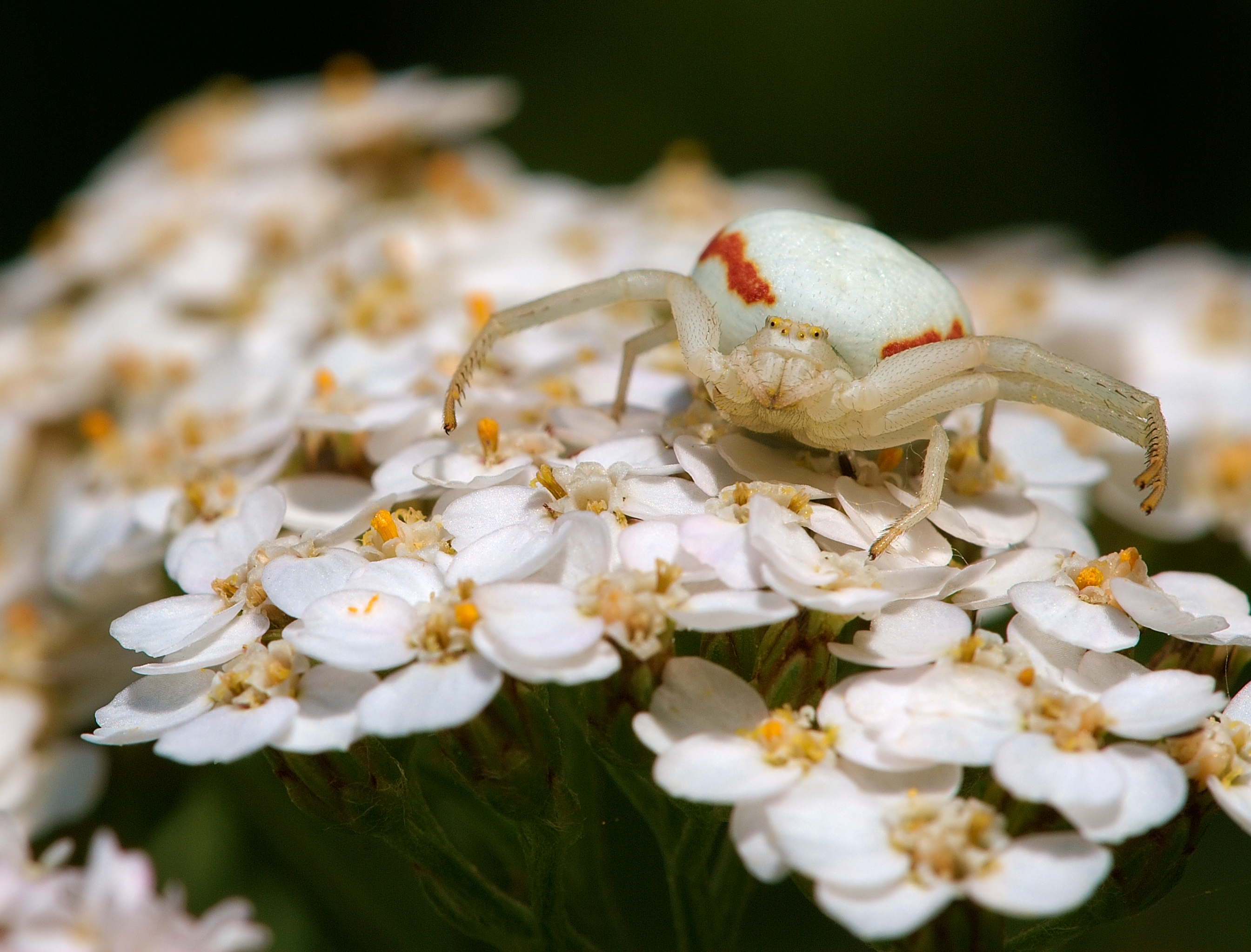 Female goldenrod crab spider (Misumena vatia) on a yarrow flower (Achillea millefolium).